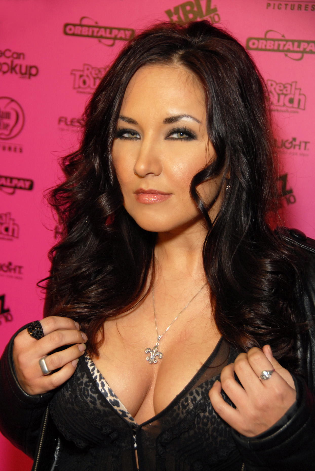 Zoe Britton attending the XBIZ Awards at Avalon, Hollywood, CA on February 10, 2010 - Photo by Glenn Francis of